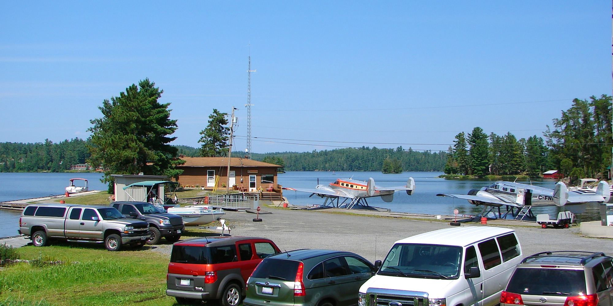 Nestor Falls water aerodrome, Ontario, Canada